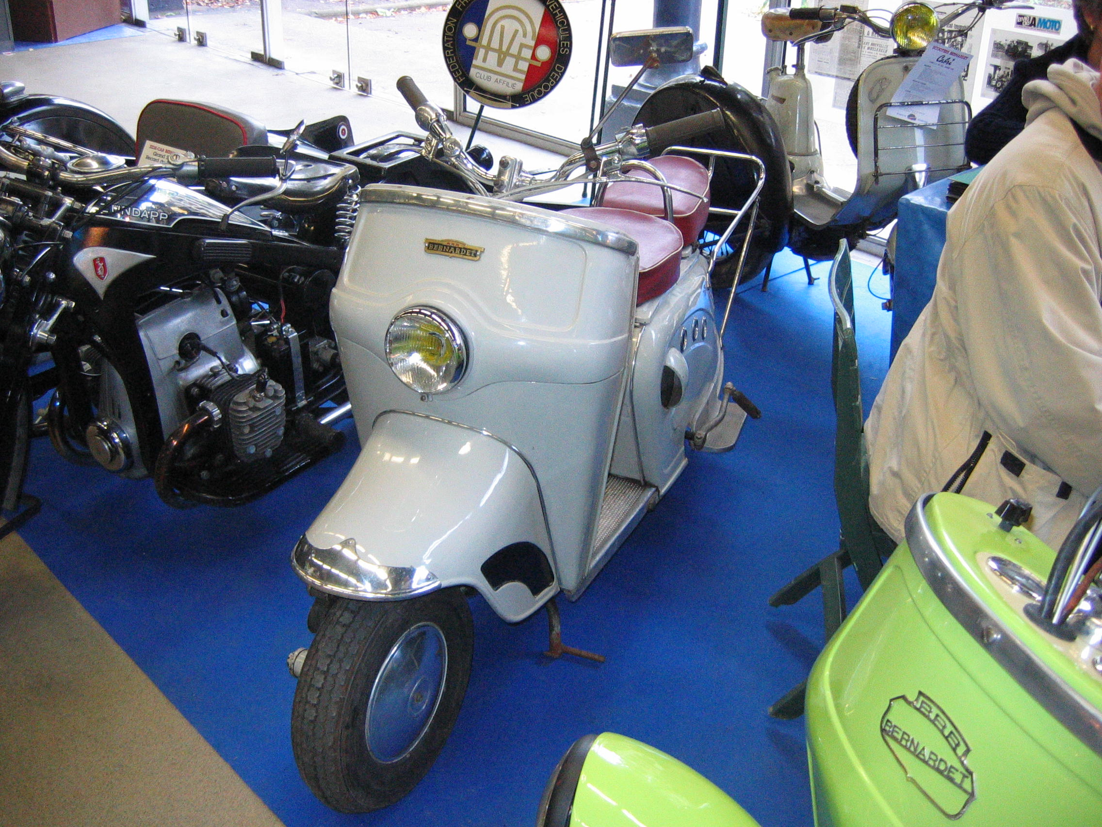 French Scooter Bernardet Y52, year 1953 Picture : Gérard Delafond